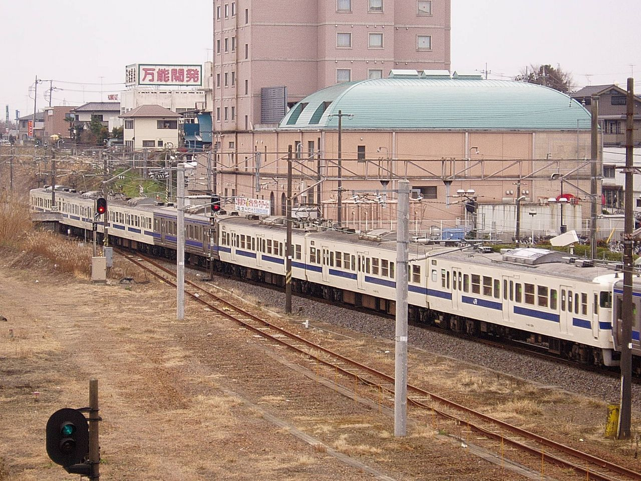 East Japan Railway Company, EMU type 415 Fomation Number K918 at Ishioka Sta.